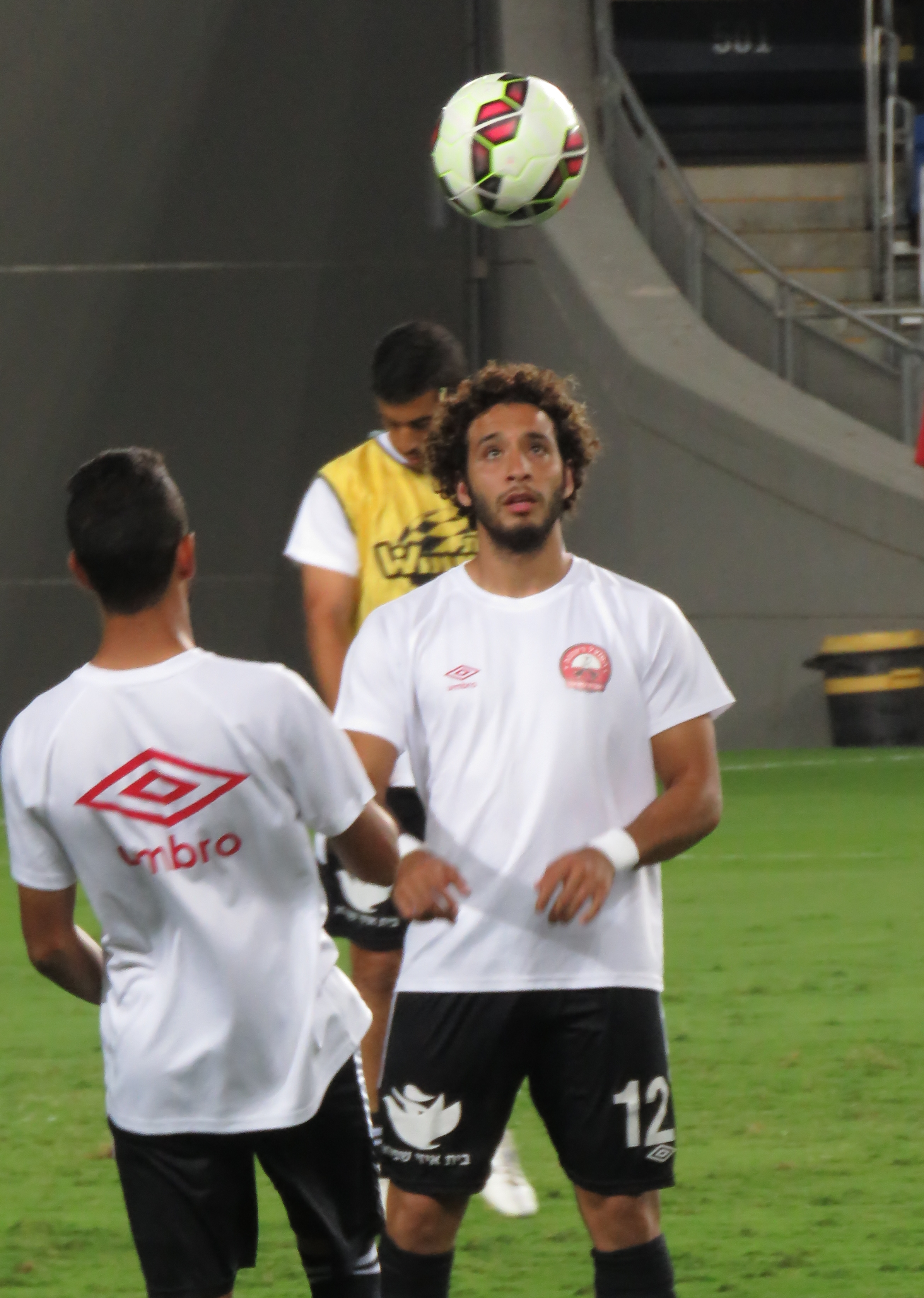 Hapoel Ra'anana vs. Maccabi Haifa F.C., 3 October, 2015